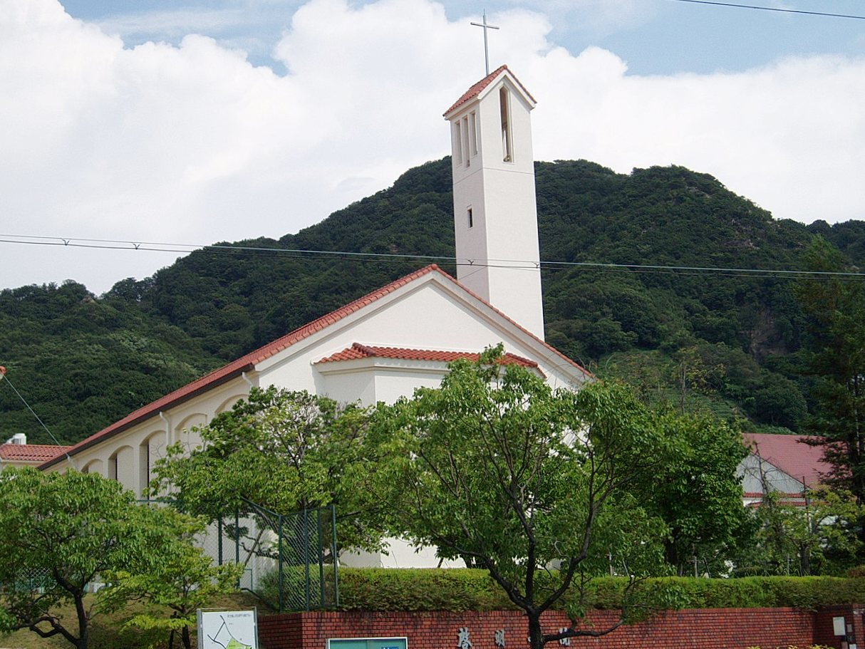 The chapel of Keimei Gakuin Junior & Senior High School located in Suma-ku, Kobe, Hyogo Prefecture, Japan.